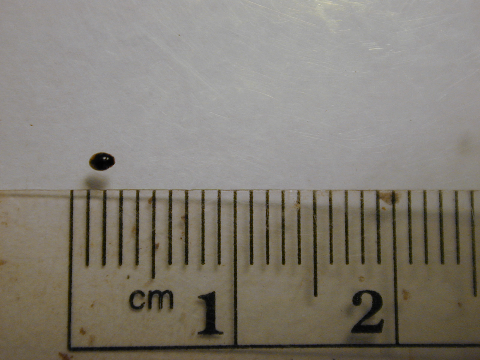 Canavalia pubescens (Coleoptera Nephus sp 020309 6). Location: Maui, LaPerouse